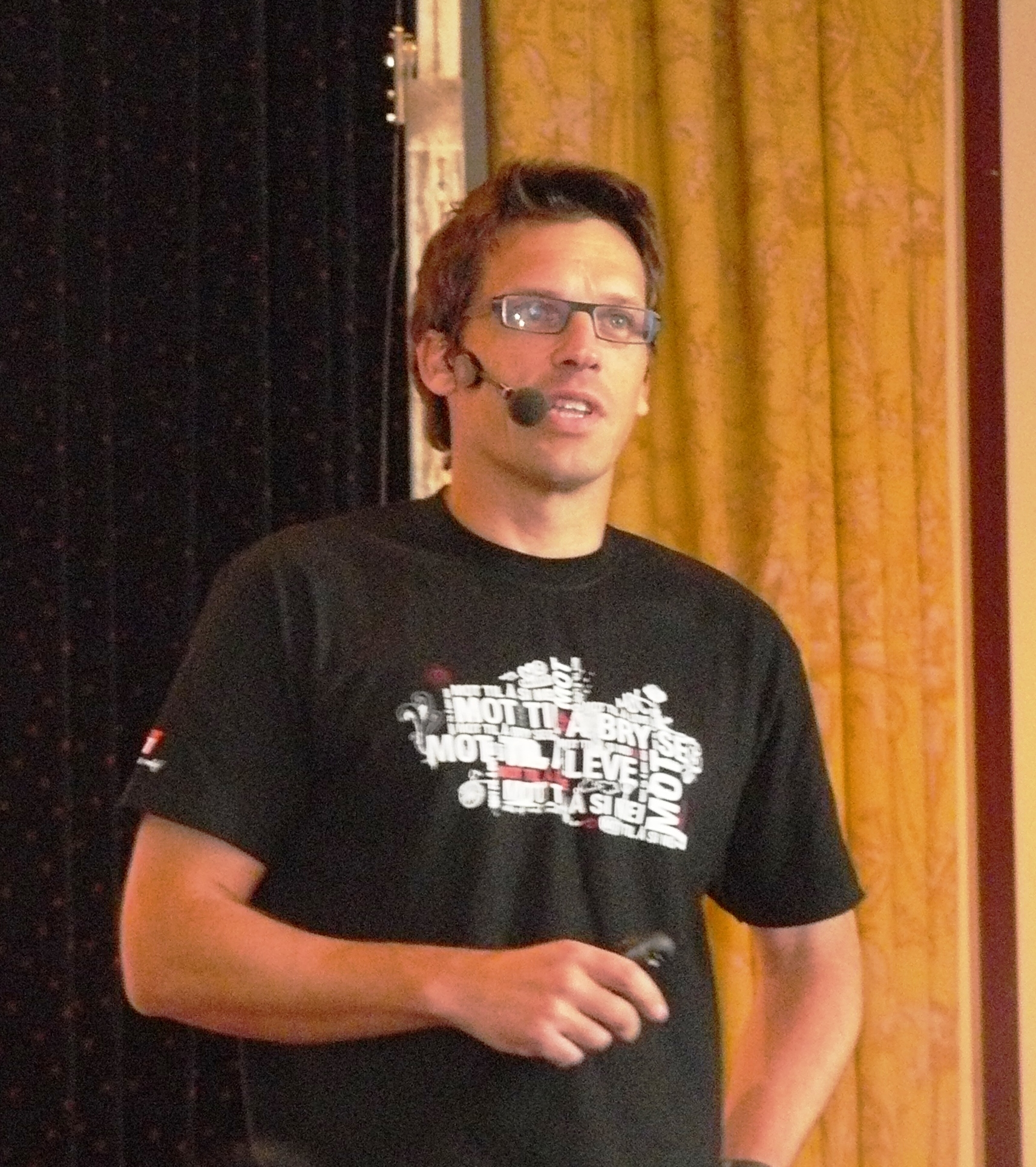 Johann Olav Koss, former olympic speedskater